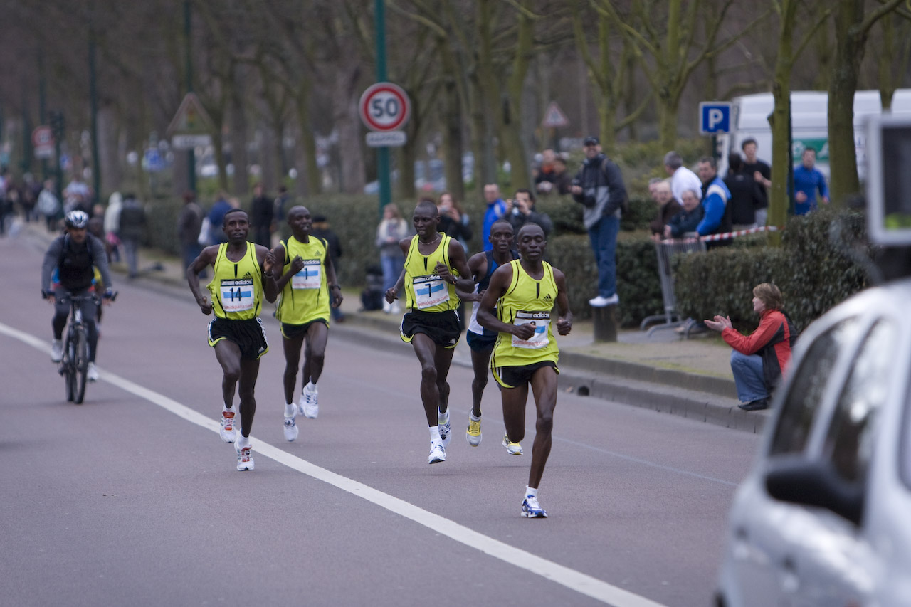 Paris Half marathon, March the 1st